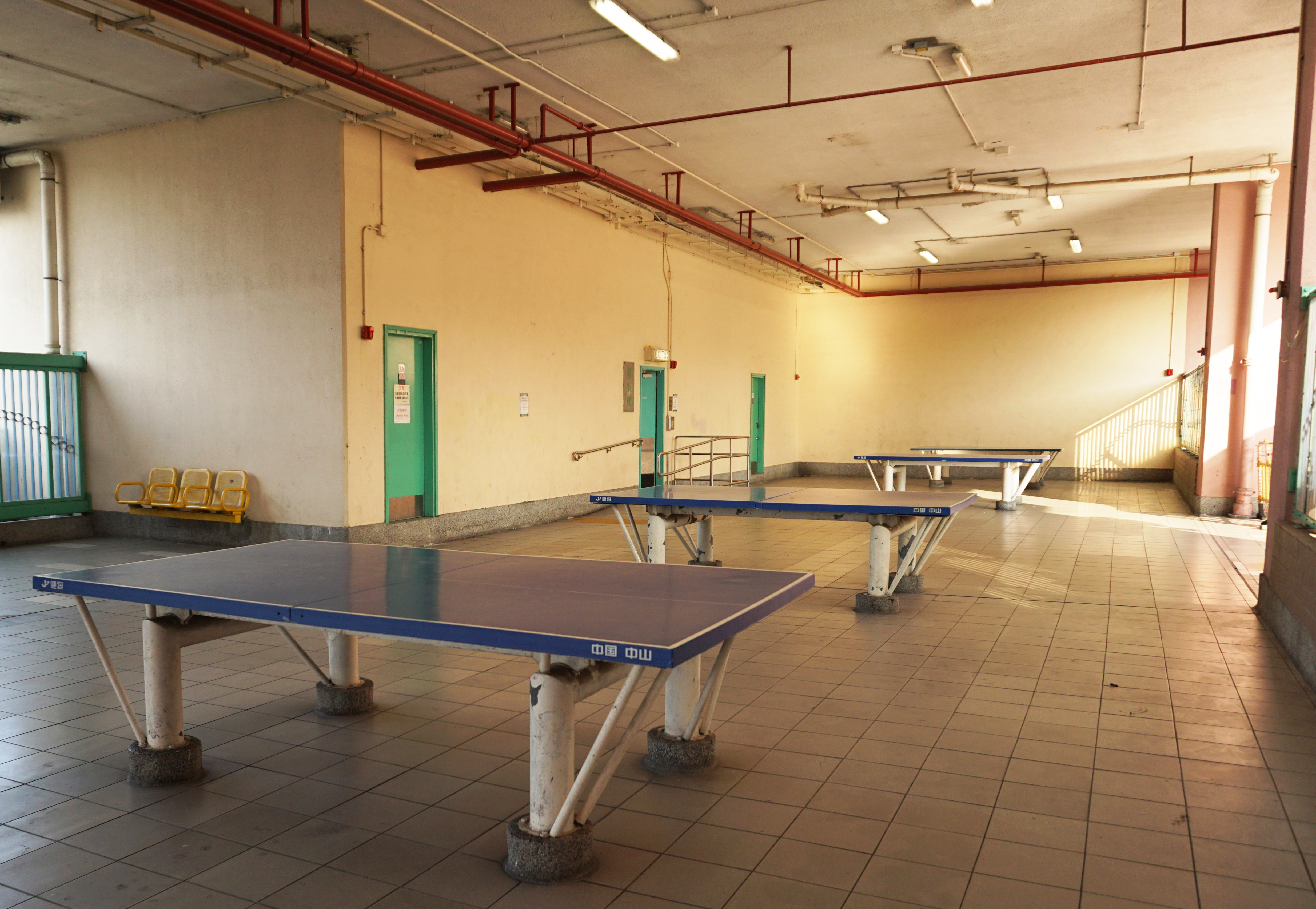 Fu Tai Estate in Tuen Mun, Hong Kong.